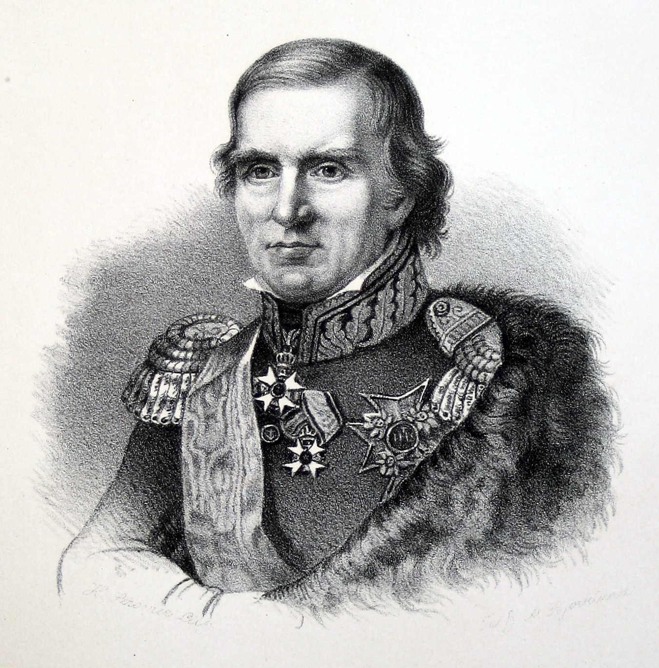 Portrait of Baltzar von Platen (1766-1829) from the book "Svenska industriens män" (1875)